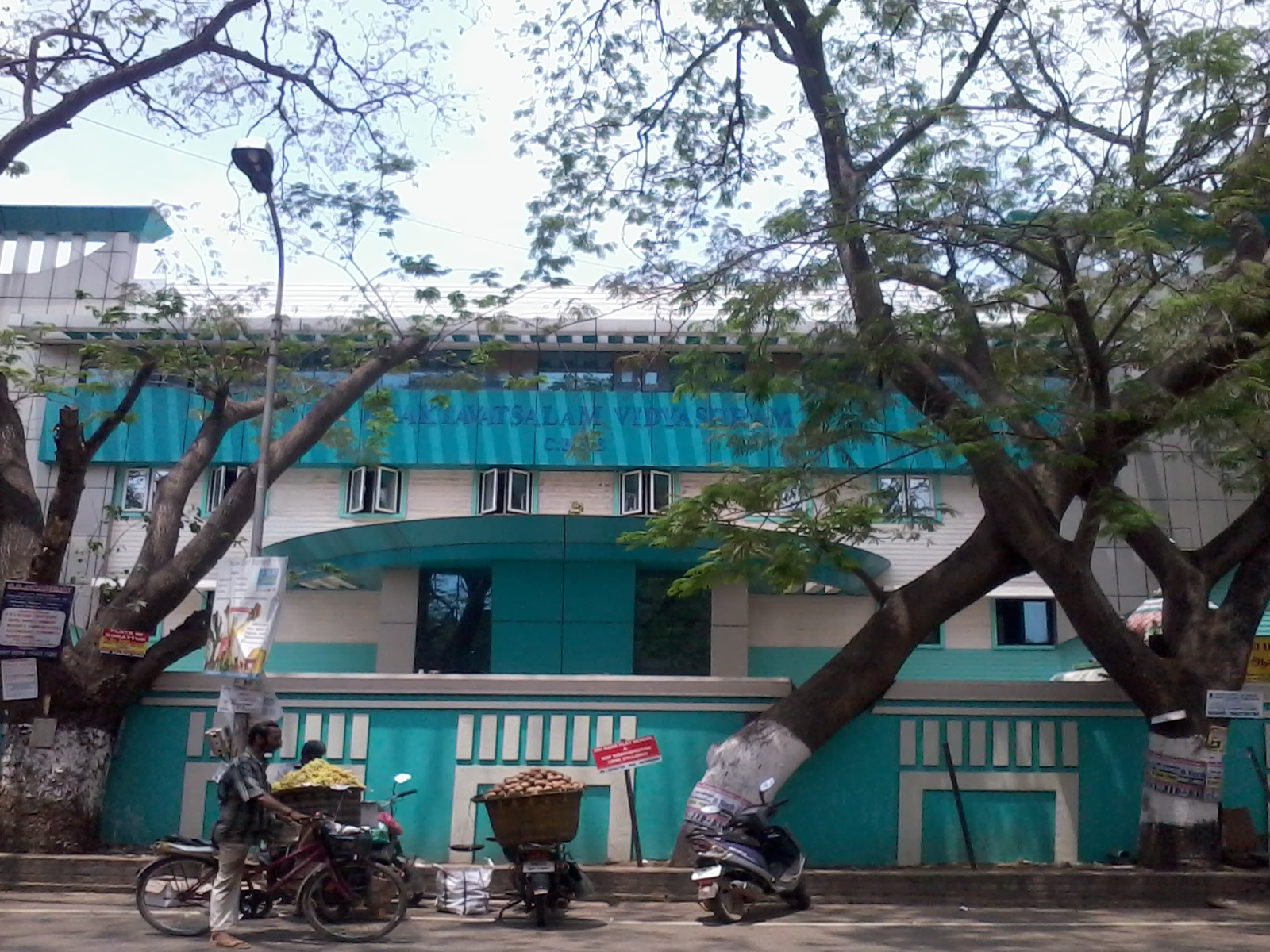 Front view (Outside the Campus Wall) of the Baktavatsalam School